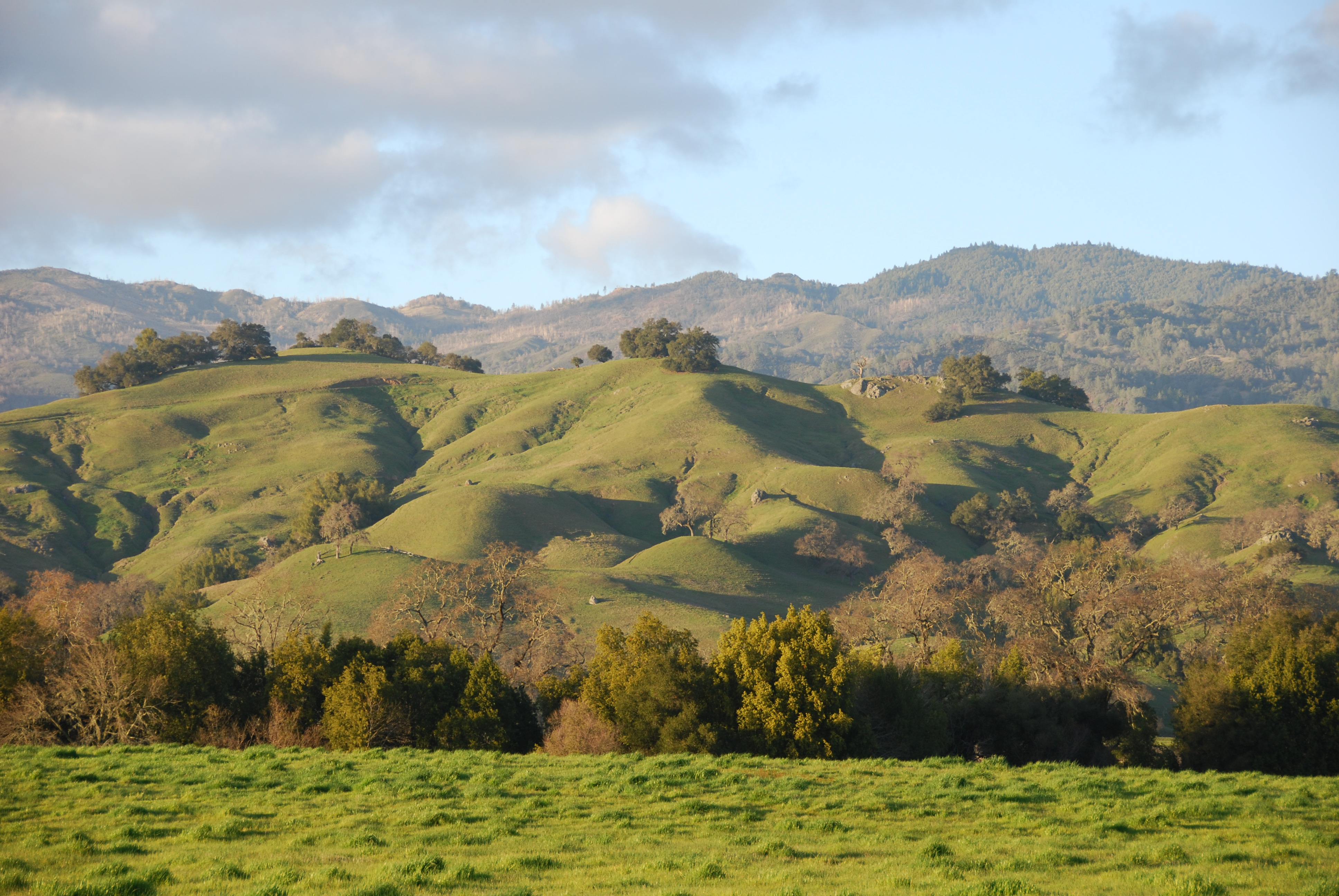 Driving along the highway 29 through the valley I had to stop and capture this.